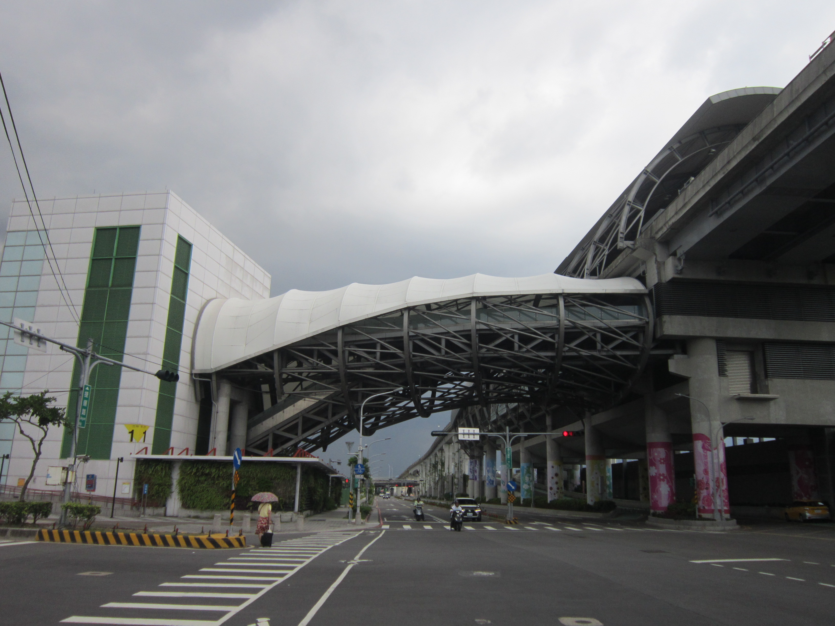 Taoyuan_MRT_A2_Sanchong_Station3